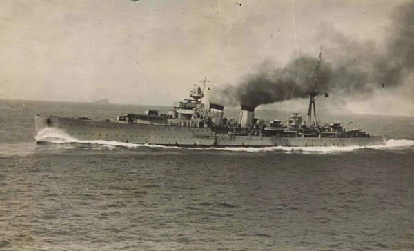 Spanish cruiser Almirante Cervera in her shakedown, without weapons